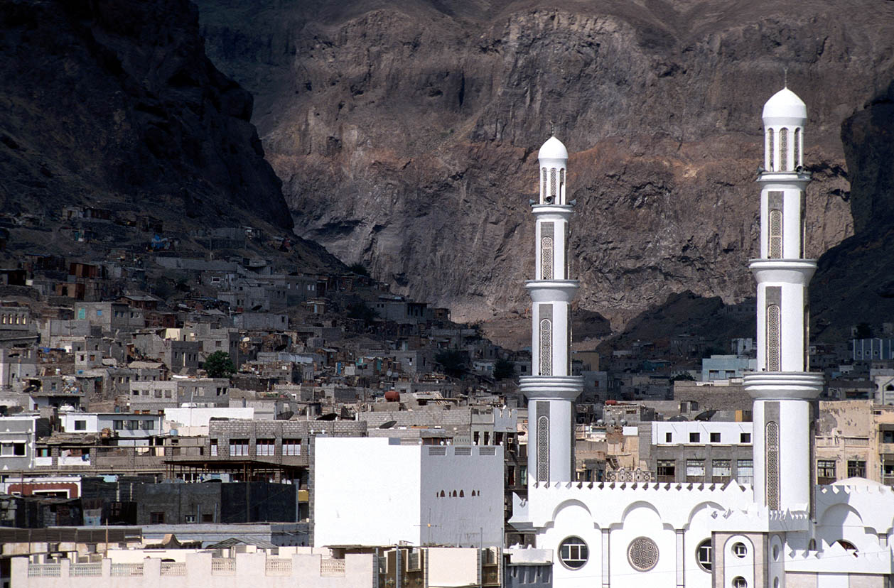 The old town of Aden, Yemen, situated in the crater of an extinct volcano